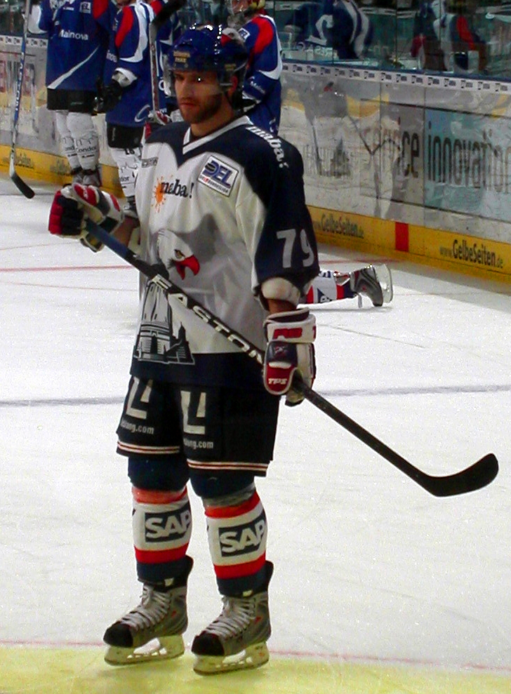 Mario Scalzo, Ice Hockey Player, Defender, Adler Mannheim